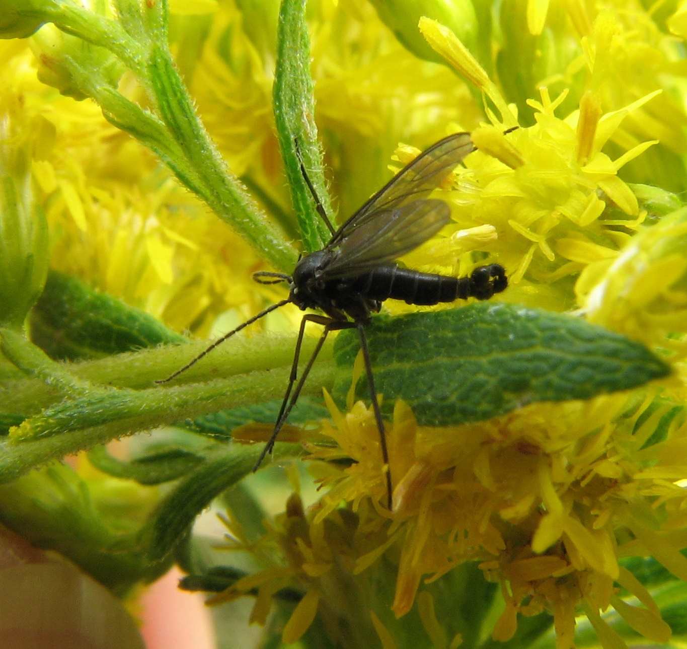 Male Sciaridae (fungus gnat) on goldenrod. Pennypack Restoration Trust, Montgomery County, Pennsylvania, USA.